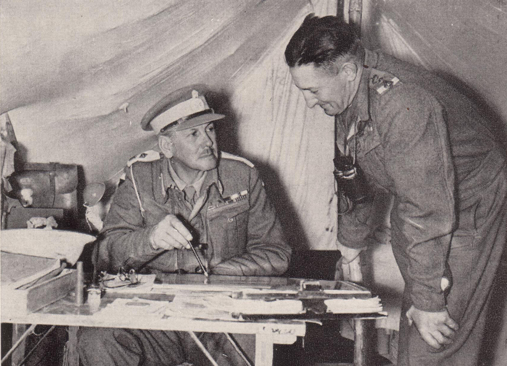 General George Brink: Commanding Officer 1st South African Infantry Division, Western Desert, 1941